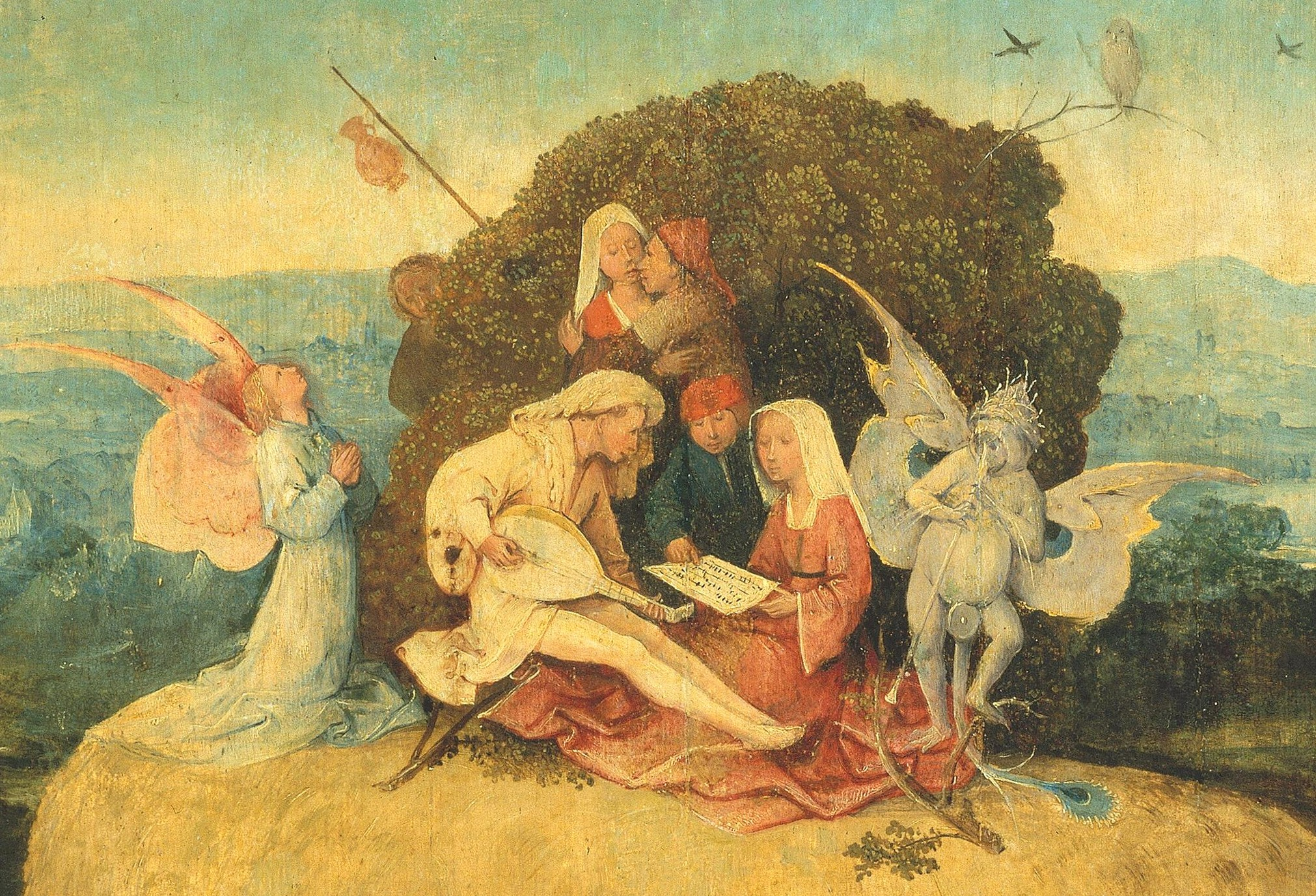 Group of musicians in the central panel of the triptych "The Haywain" by Hieronymus Bosch: Located: Prado Museum, Madrid